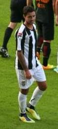 Sheehan v. Galatasaray